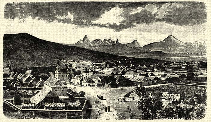 picture of Marosújvár (Ocna Mureș), then Alsó-Fehér (Alba Inferior) County, now Alba County, Romania